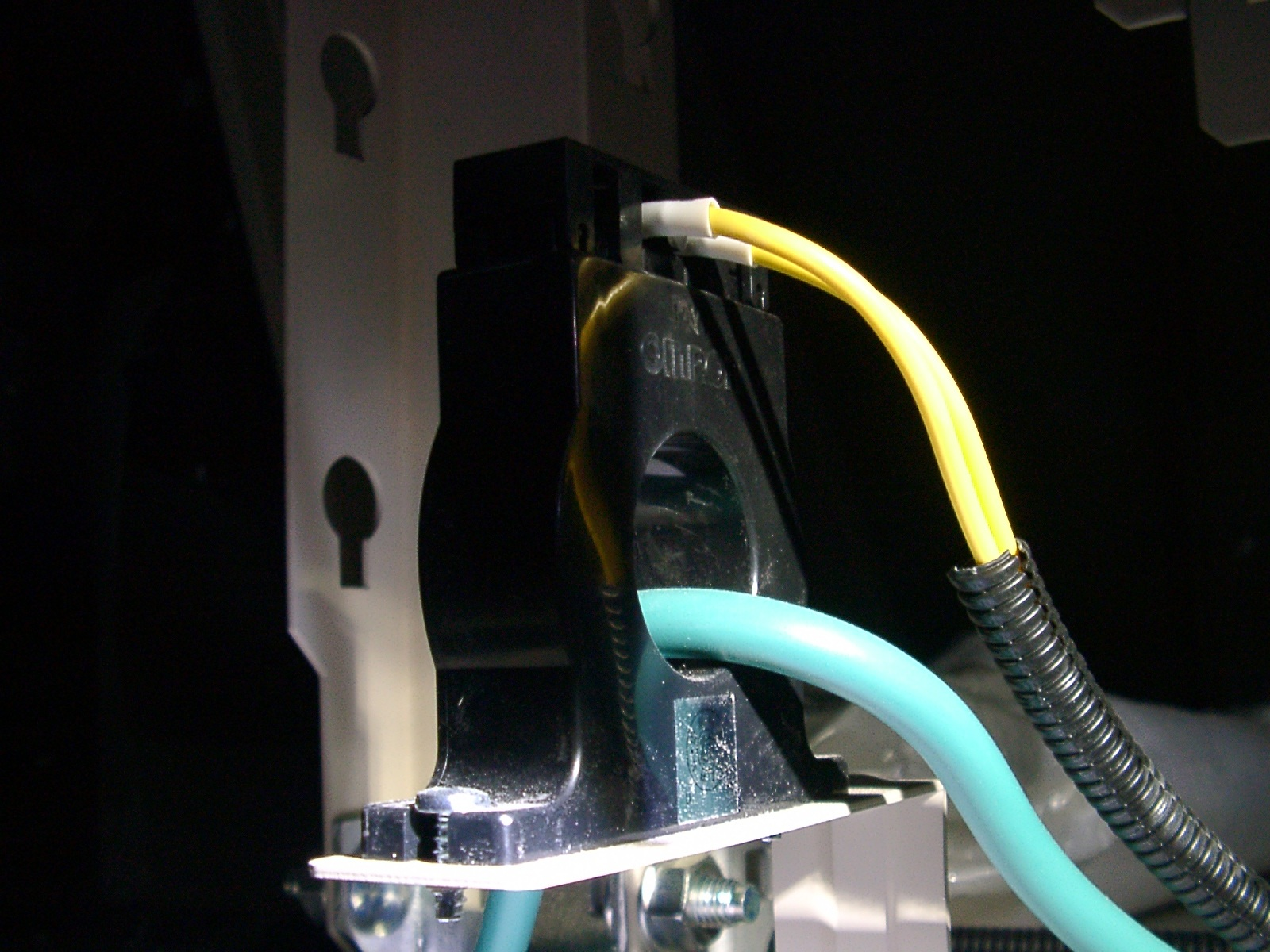 Current transformer for electric leak fire alarm.